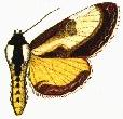 PLATE CXLV.